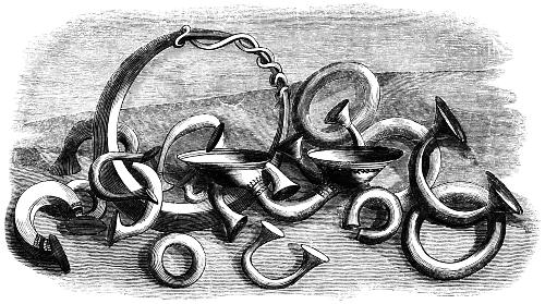 “Ring-money, peculiar to the Celtic nations, undoubtedly existed in Ireland previous to the domination of the Romans in Britain. Although Cæsar says that the ancient Britons had no coined money, there is sufficient probability that they had their metal plates for purposes of currency, such being occasionally found in English barrows. The Ring-money (Fig. 69) has been found in great quantities in Ireland, of bronze, of silver, and of gold. The rings vary in weight; but they are all exact multiples of a standard unit, showing that a uniform principle regulated their size, and that this was determined by their use as current coin.” (p. 22)